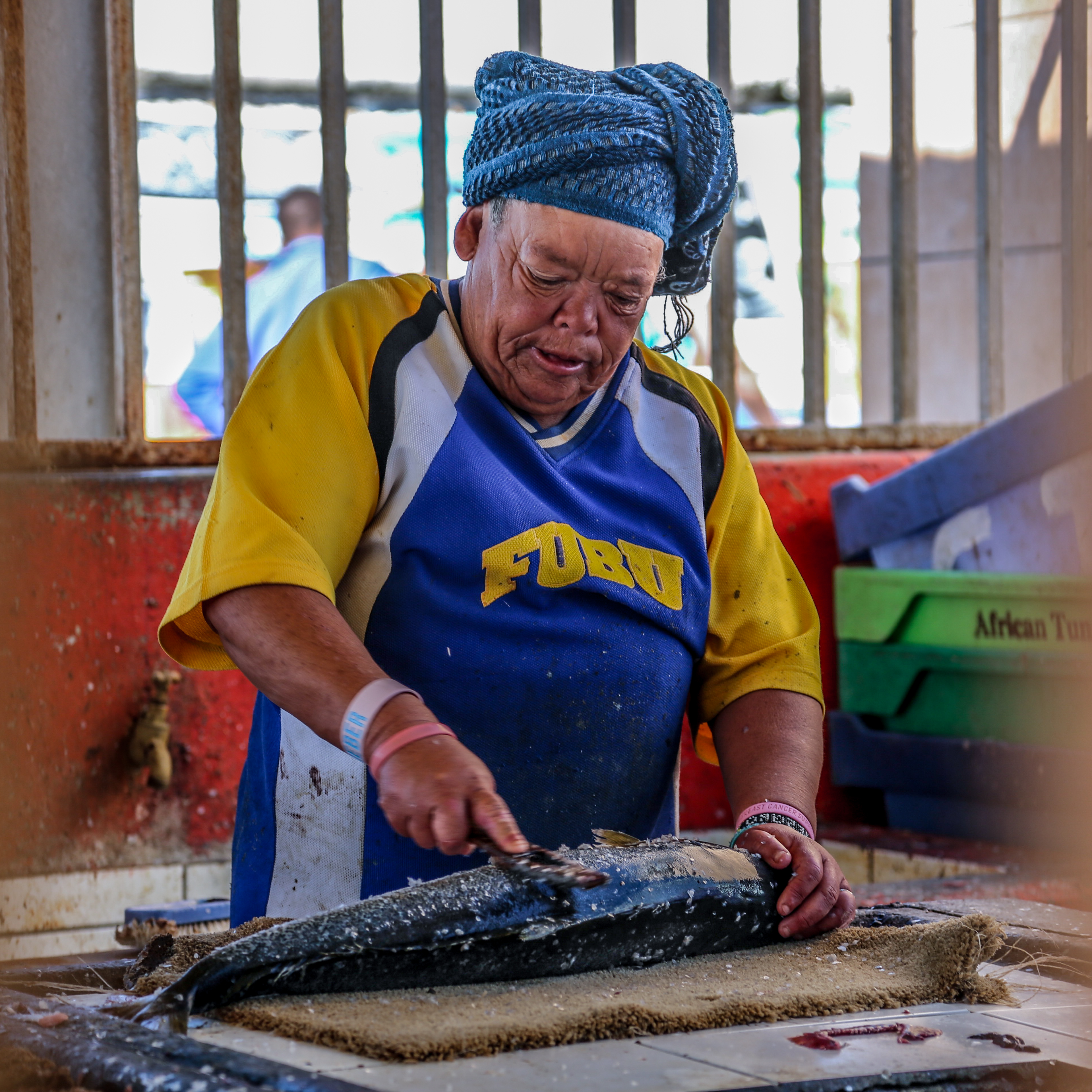 Kalk Bay is a small town situated in Cape Town, South Africa. The small town is known for its fishing industry due to the fact that it is located on the Kalk Bay Harbour. Many Cape Coloured individuals work at the harbour, making their living by selling the fish that they catch. Whilst wondering through Kalk Bay I came across a lady de-scaling the freshly caught fish. She told me she does this all day so that she can support her family with the small amount of money she makes. This is an example of a small community of people making a living in a very simple way with no education needed. The fish that are caught and sold generate income mainly from tourists and locals who appreciate the efforts from these people in making fresh fish available. This is an image of "African people at work" from South Africa